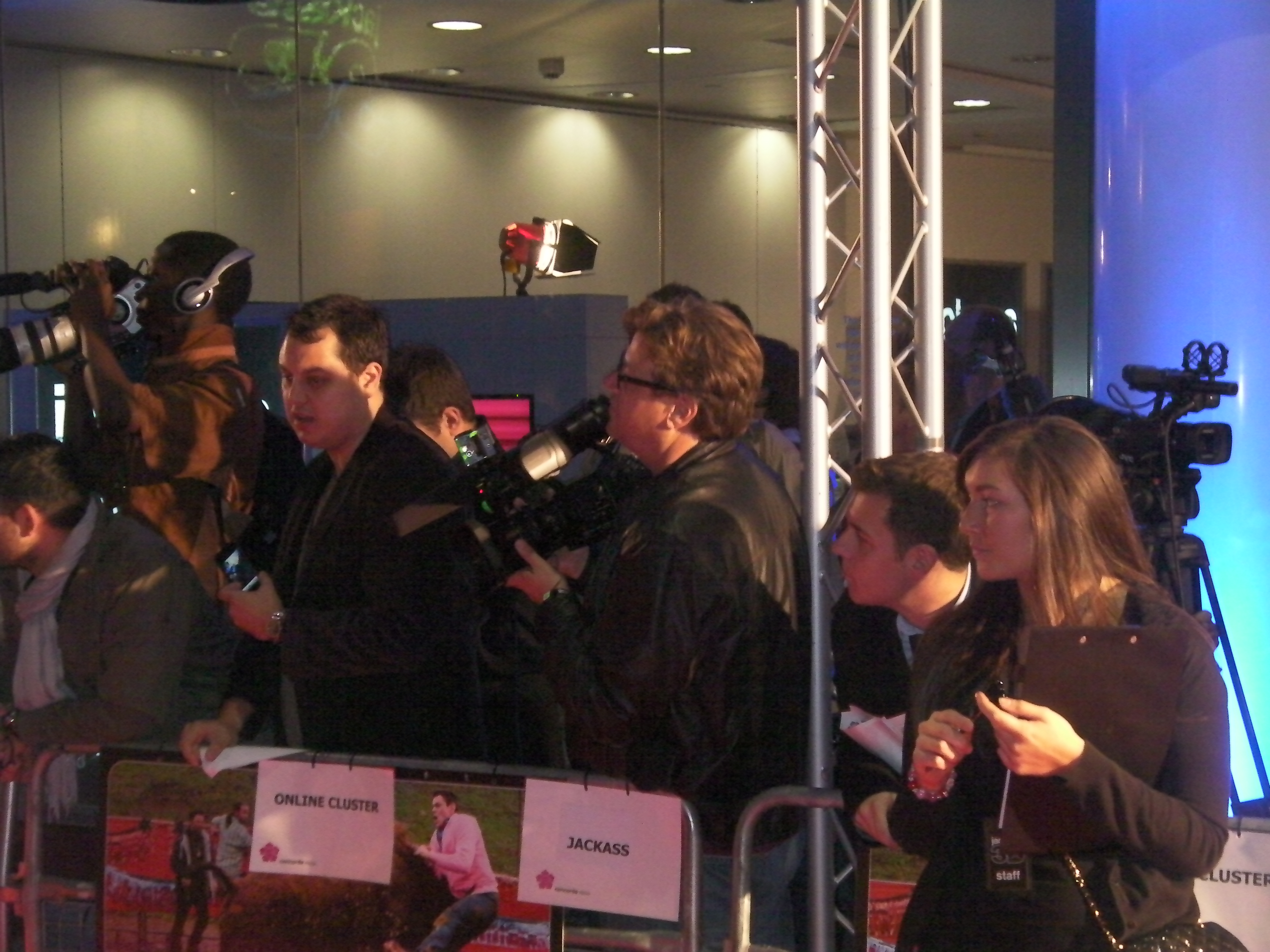 Rick Kosick at Jackass 3D London Premiere 2nd November 2010.